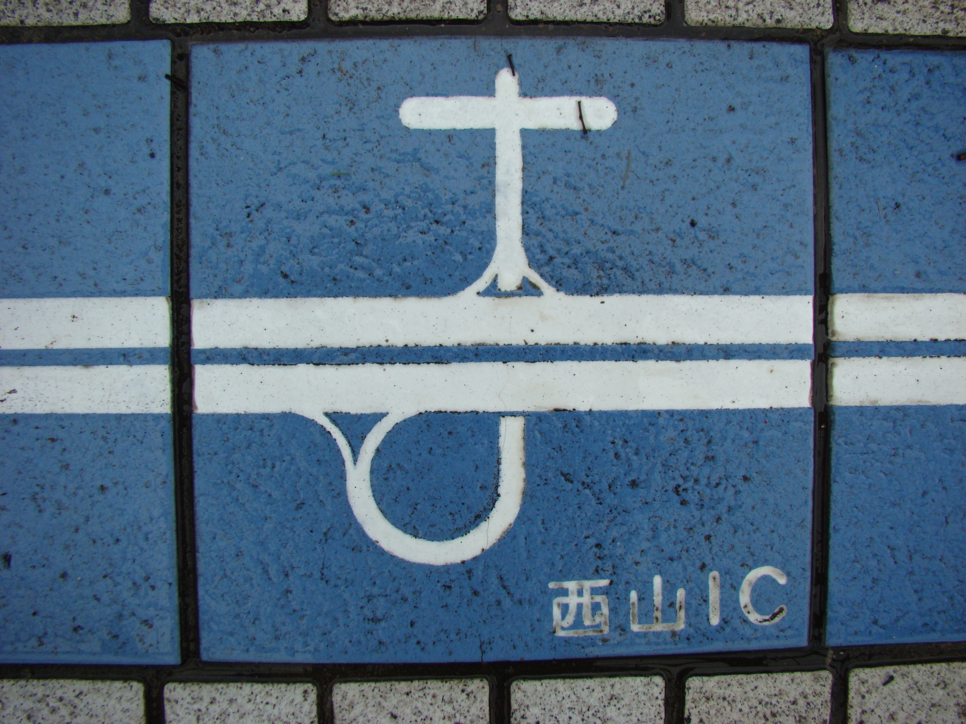 The tile which designed a shape of the Nishiyama Interchange（Hokuriku Expressway）（There is this tile in Hokuriku Expressway Nadachi-Tanihama Service Area.）. Place - Chayagahara,Joetsu City,Niigata Prefecture,Japan Date - August 9, 2009 Format - JPEG, 3264x2448pixel, 24bit colors. Photographer - NALA Wiki (talk)